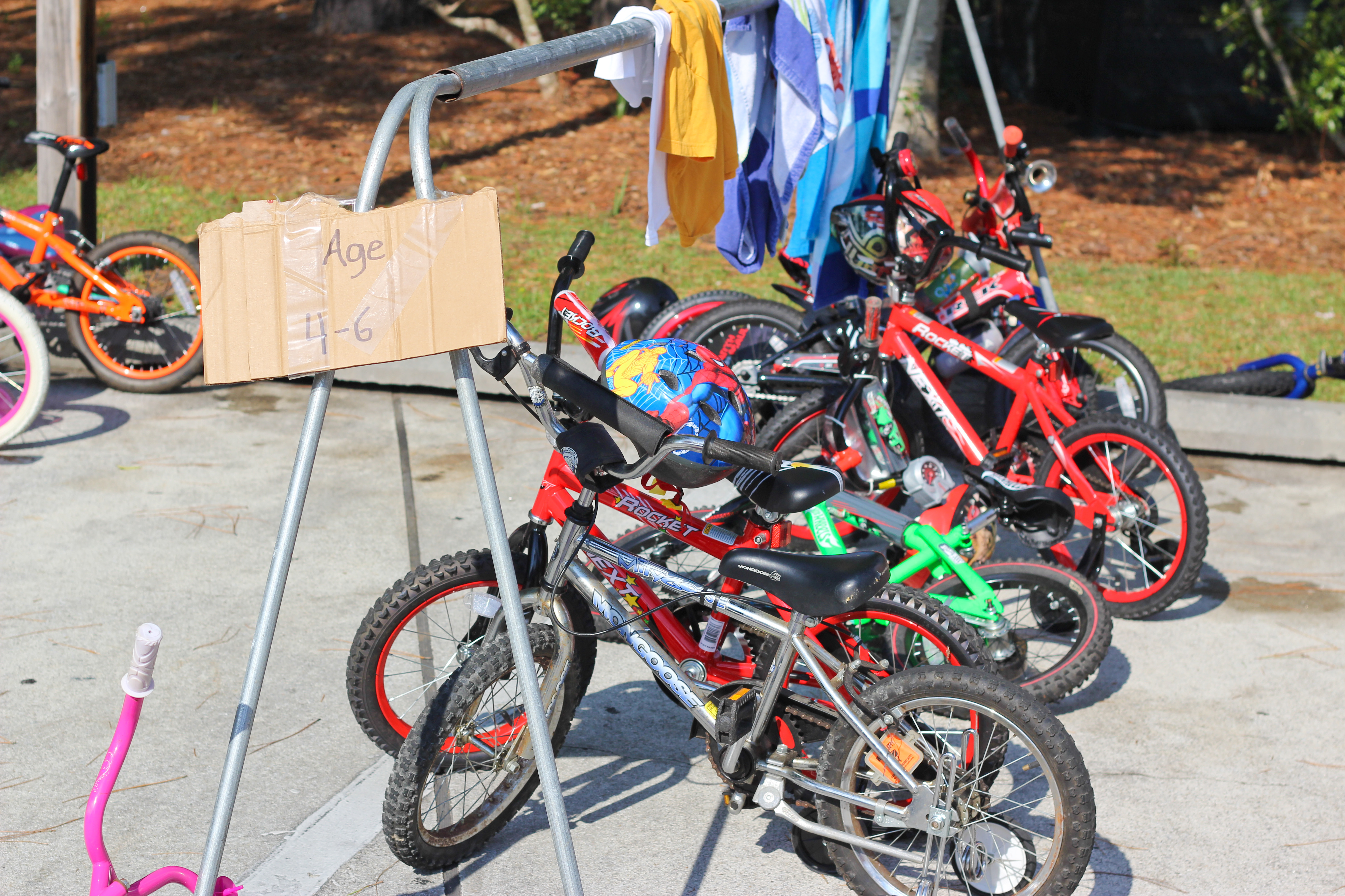 Transistion zone at kids triathlon